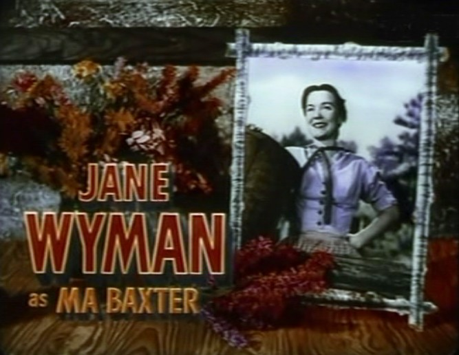 Cropped screenshot of Jane Wyman from the trailer for the film The Yearling.